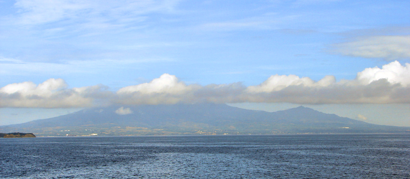 Bataan Peninsula and Mariveles Mountains as seen from Manila Bay, the Philippines. See also: File:Bataan Mariveles 1.JPG